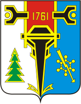 Verkhny Ufaley (Chelyabinsk oblast), coat of arms (1975)